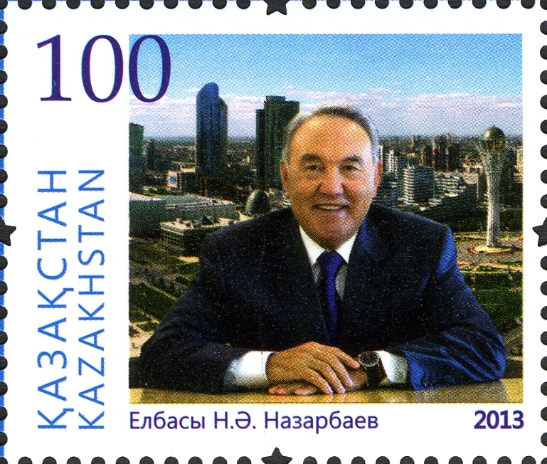 15 Years to Astana